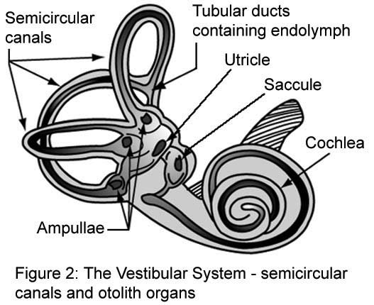 a drawing of the inner ear